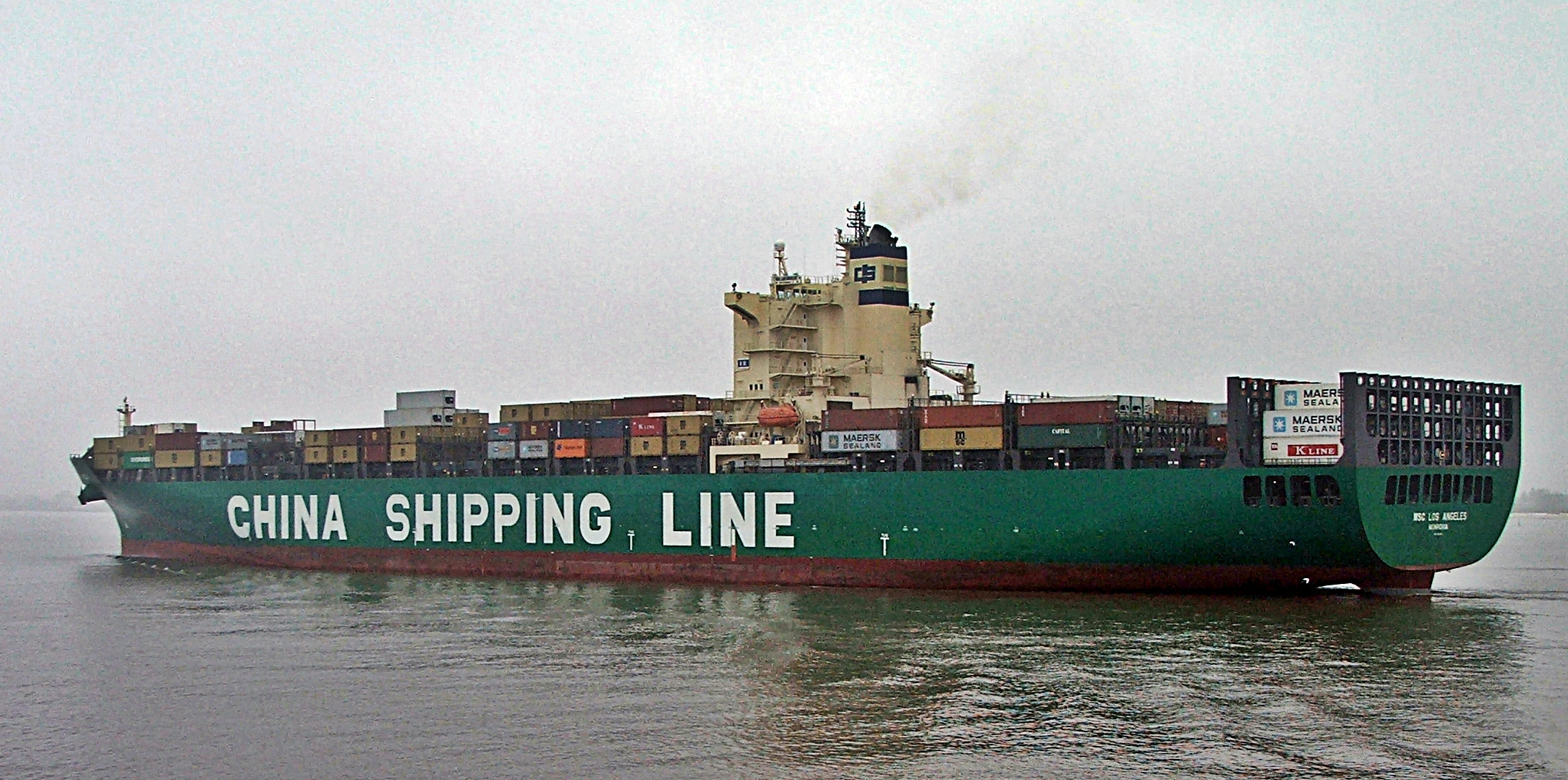 Container vessel MSC Los Angeles outbound river Elbe